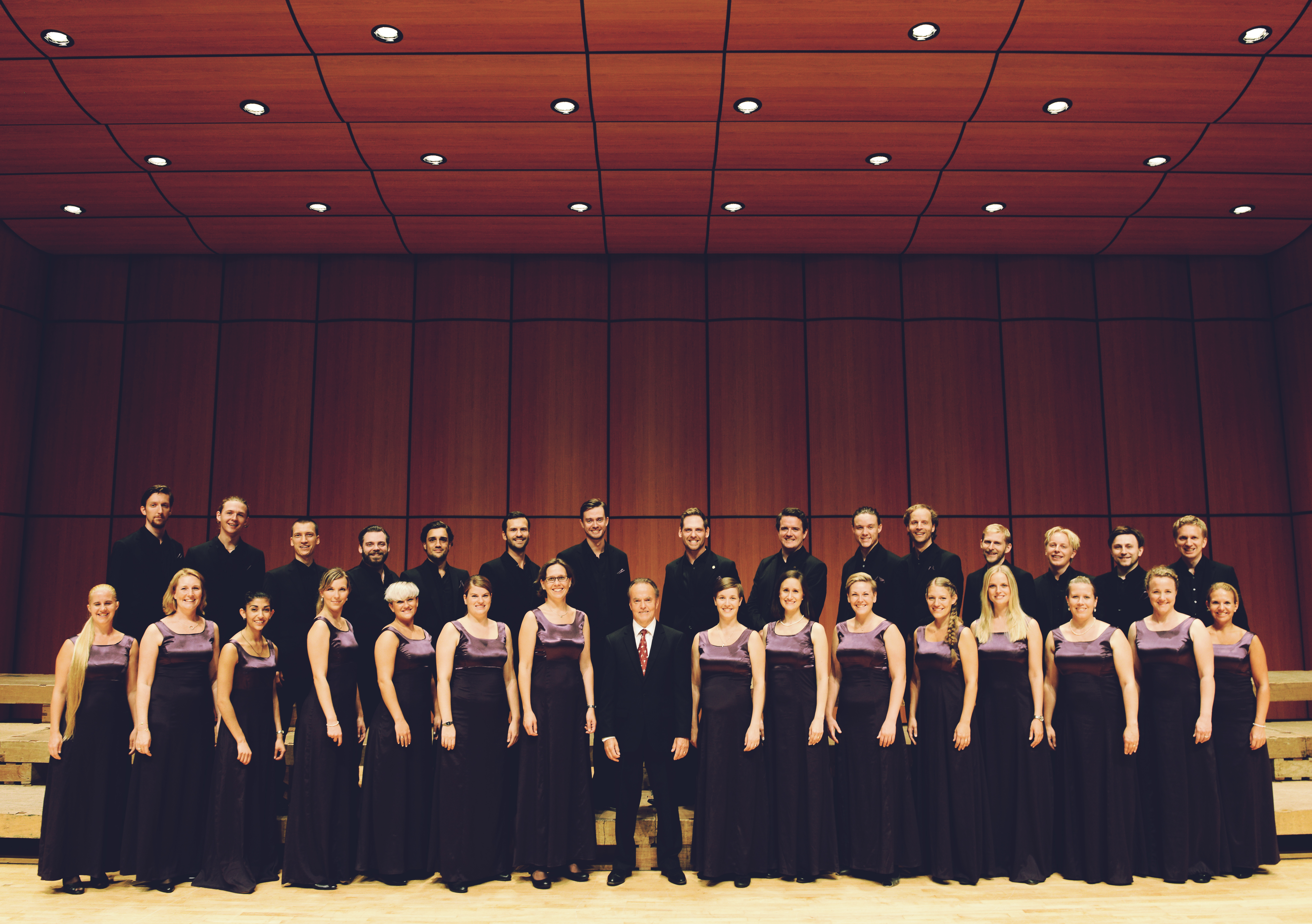 Sofia Vokalensemble in Seoul, South Korea, 2014